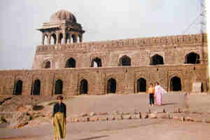 View of rani Rupmati Pavilion at Mandu Image by LRBurdak.